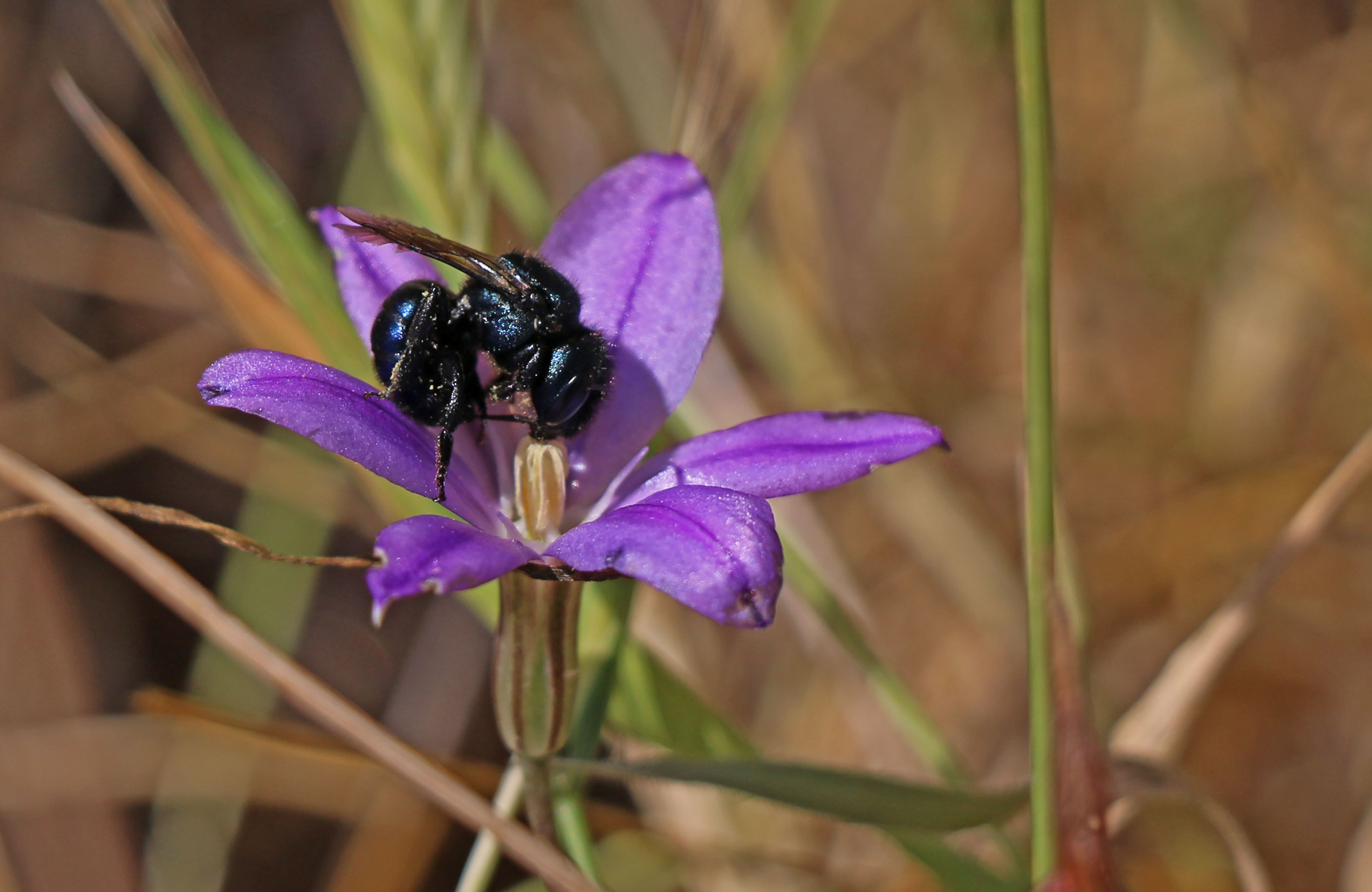 Photo by Joanna Gilkeson/USFWS.